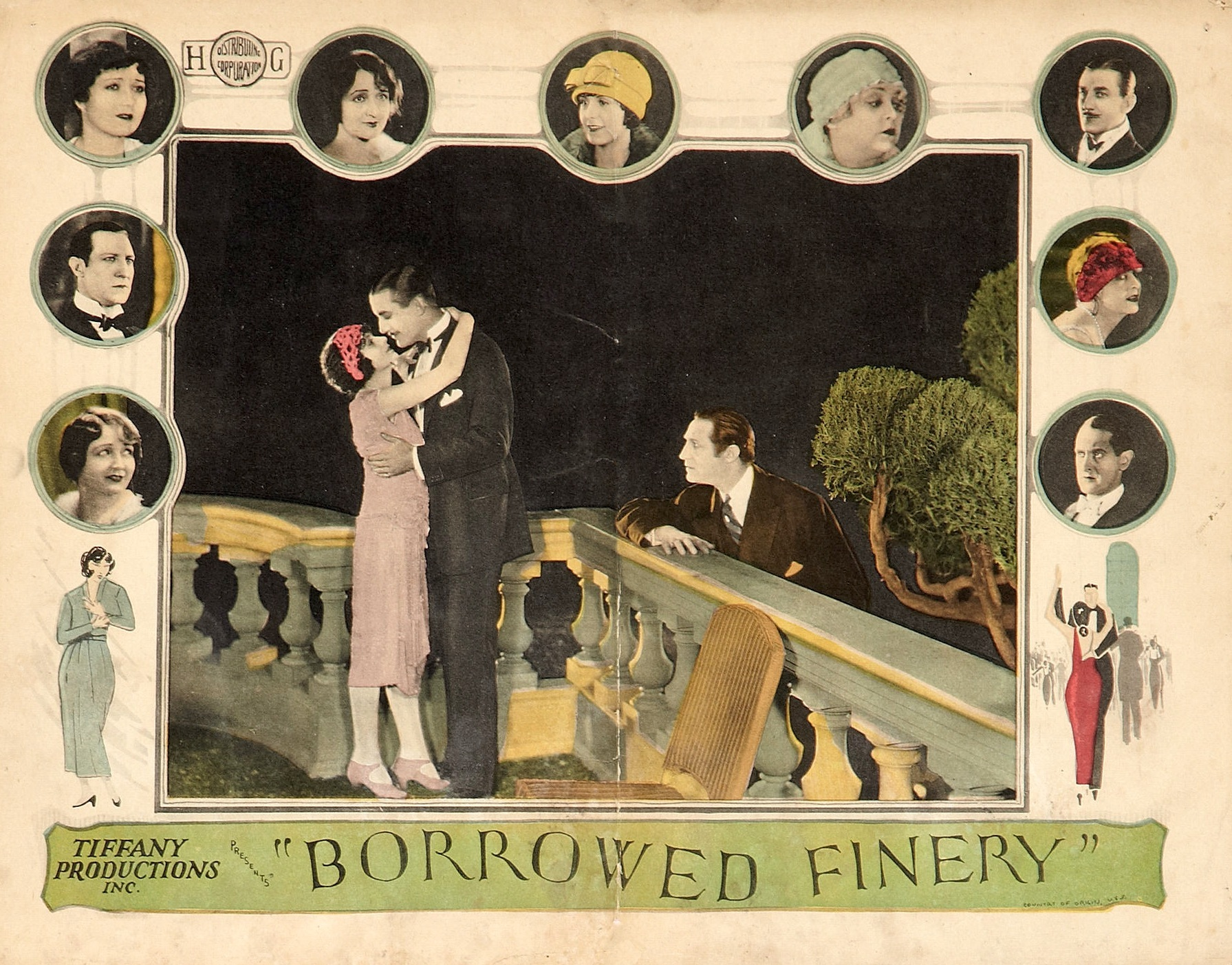 Borrowed Finery was a 1925 American silent drama film produced and released by Tiffany Pictures. This is a lobby card for the film.